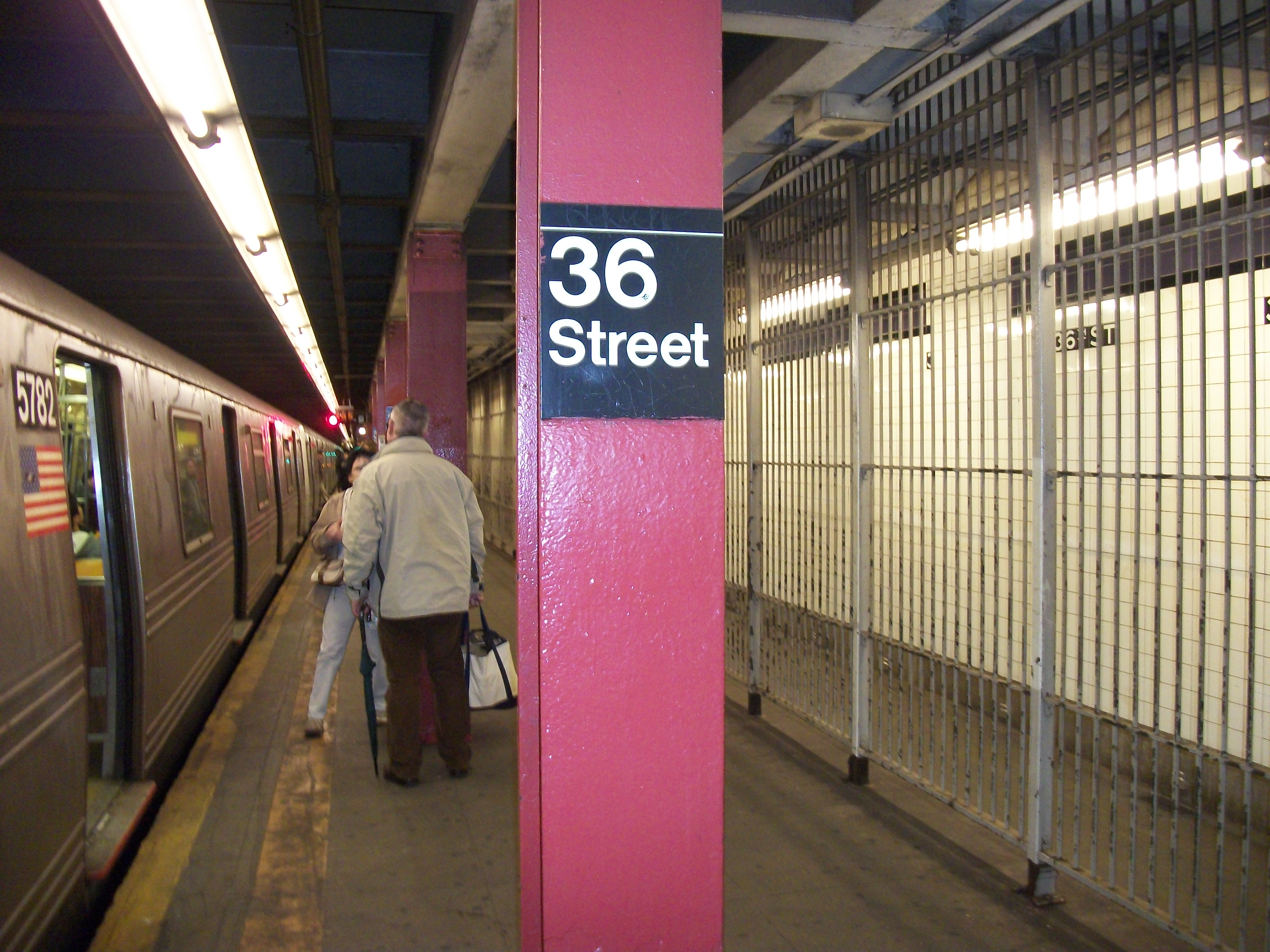 The helvetica sign on one the support beams on 36th Street (IND Queens Boulevard Line) as seen from the platform in Long Island City, Queens, New York. I forget whether this was my first or second attempt, but it worked.